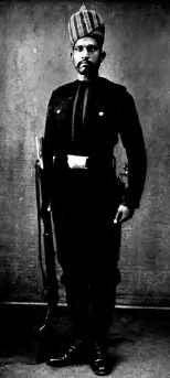 Armed Constable of the Bombay City Police 1910s